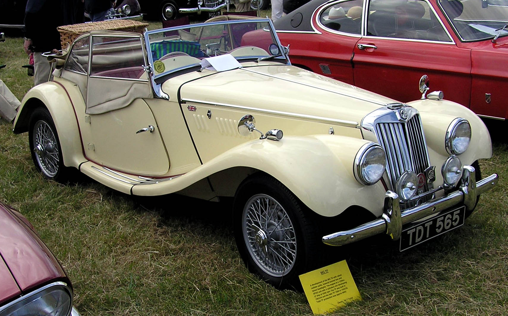 1953 MG TF at Yate Car Show, Yate, Bristol, England.